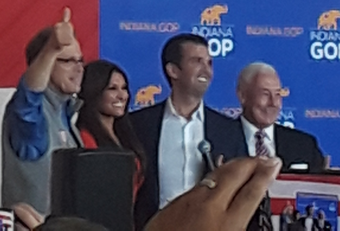 On October 22, 2018, US Senate candidate from Indiana Mike Braun, along with Donald Trump Jr., Kimberly Guilfoyle, Governor Eric Holcomb, Senator Todd Young, and Greg Pence hosted a rally in Greenfield, Indiana. Here is a picture of Mike Braun, Kimberly Guilfoyle, Donald Trump Jr, and Greg Pence.